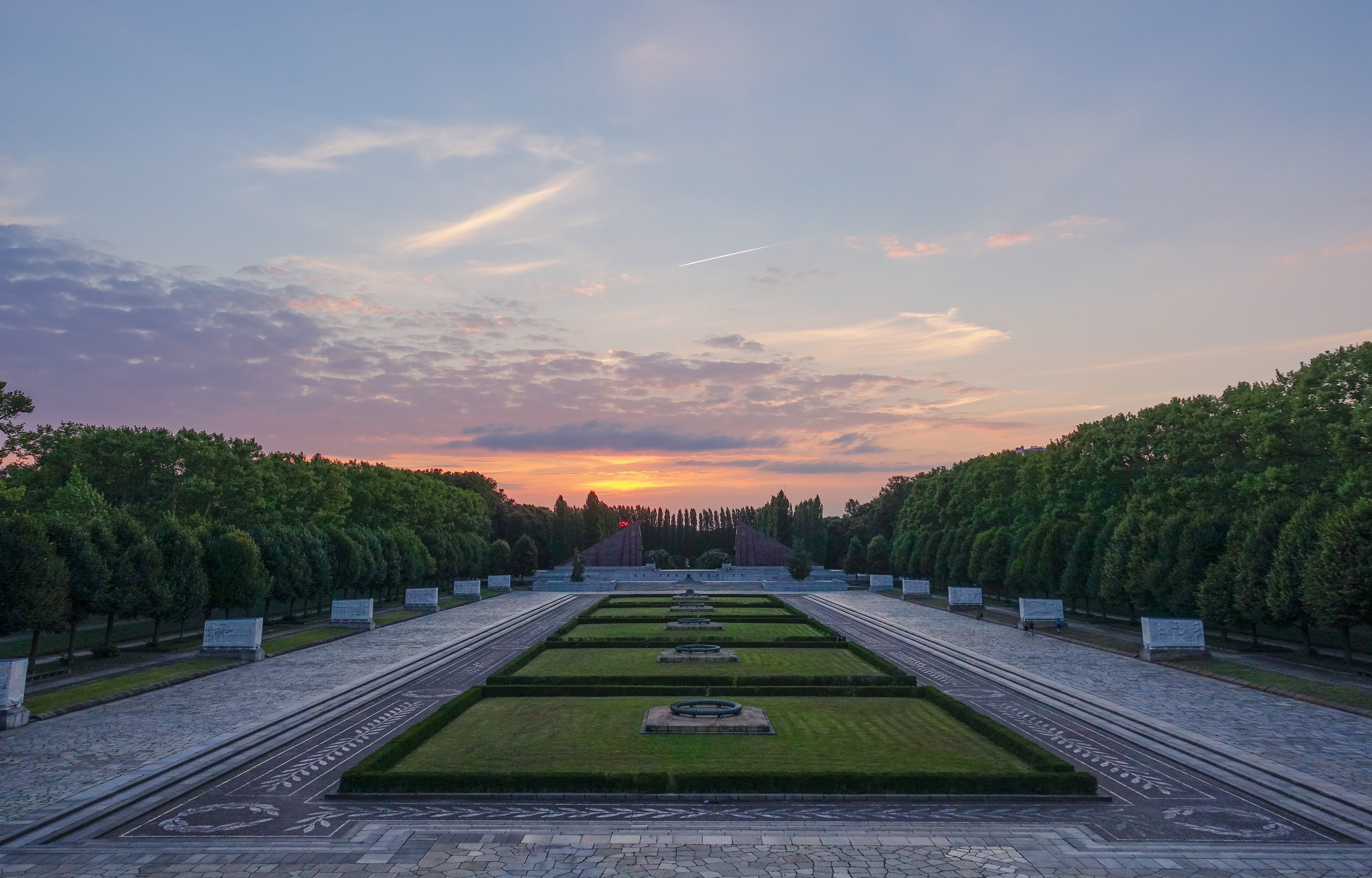 Panoramic view of Treptower Park from the hill of the main monument.